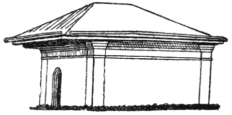 House of Ivan Charnysh in Velyki Sorochyntsi